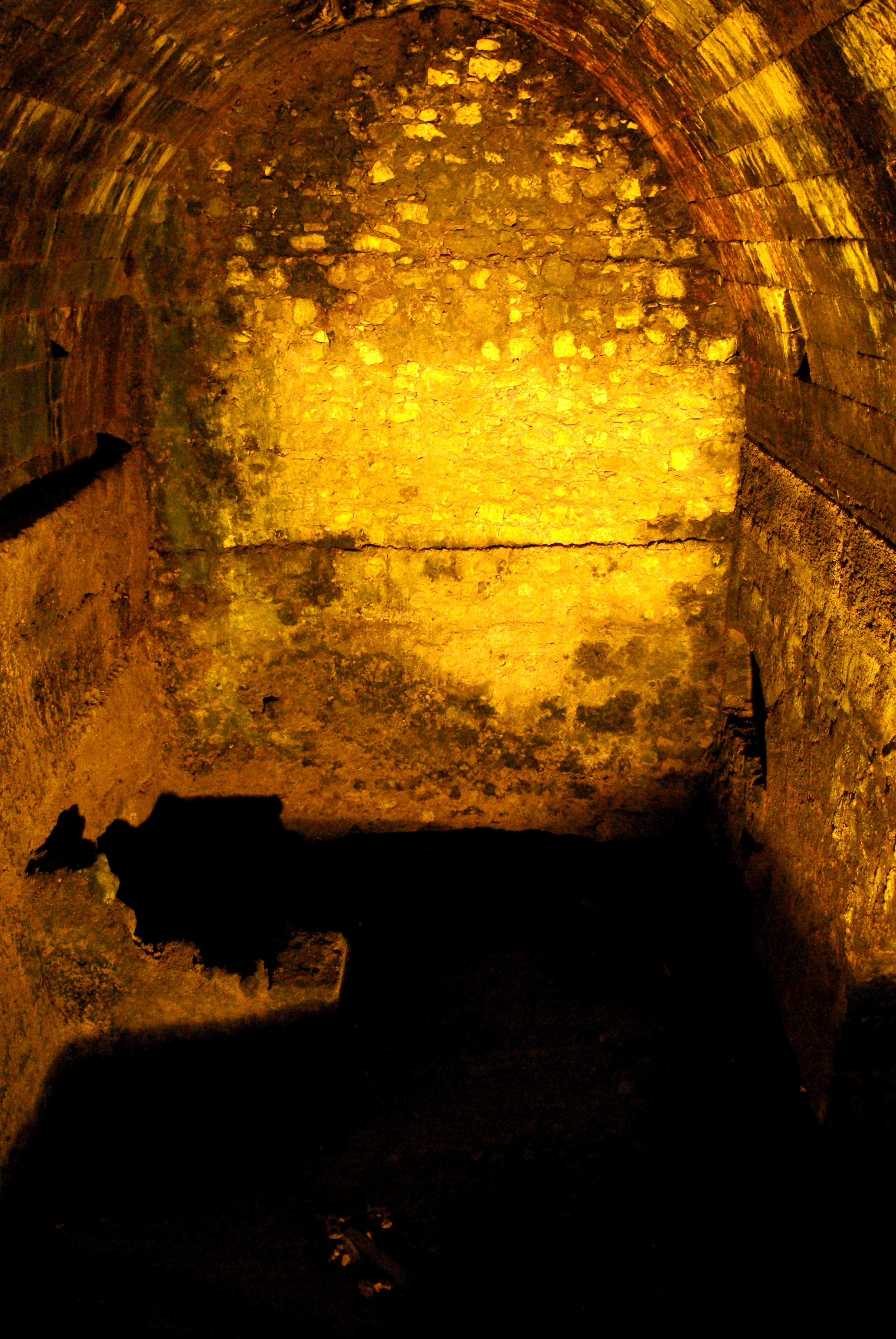 Jerusalem, Western wall tunnel, Ancient cistern, behind the wall is the Struthion pool